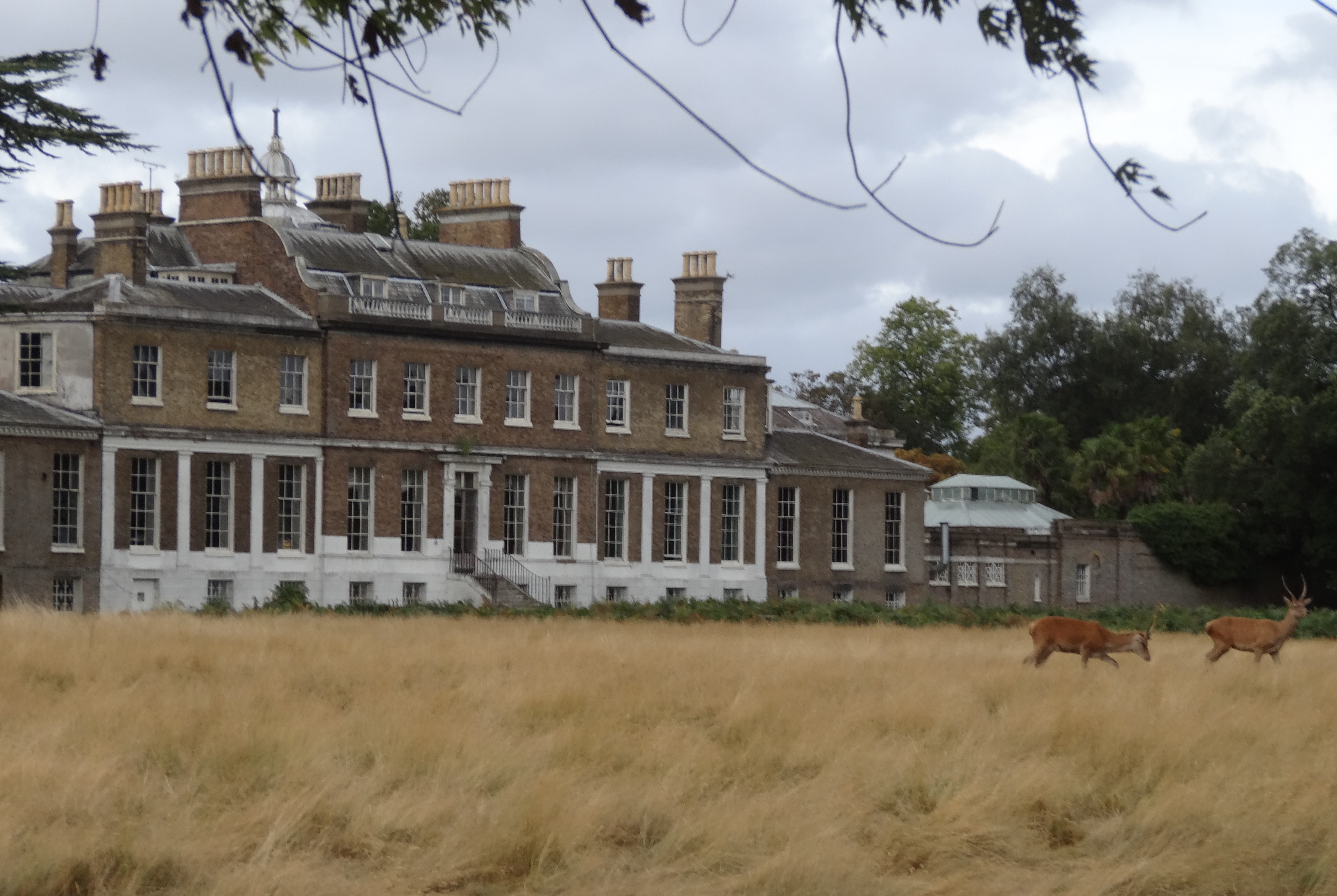 Hampton Court House from Bushy Park with Red Deer